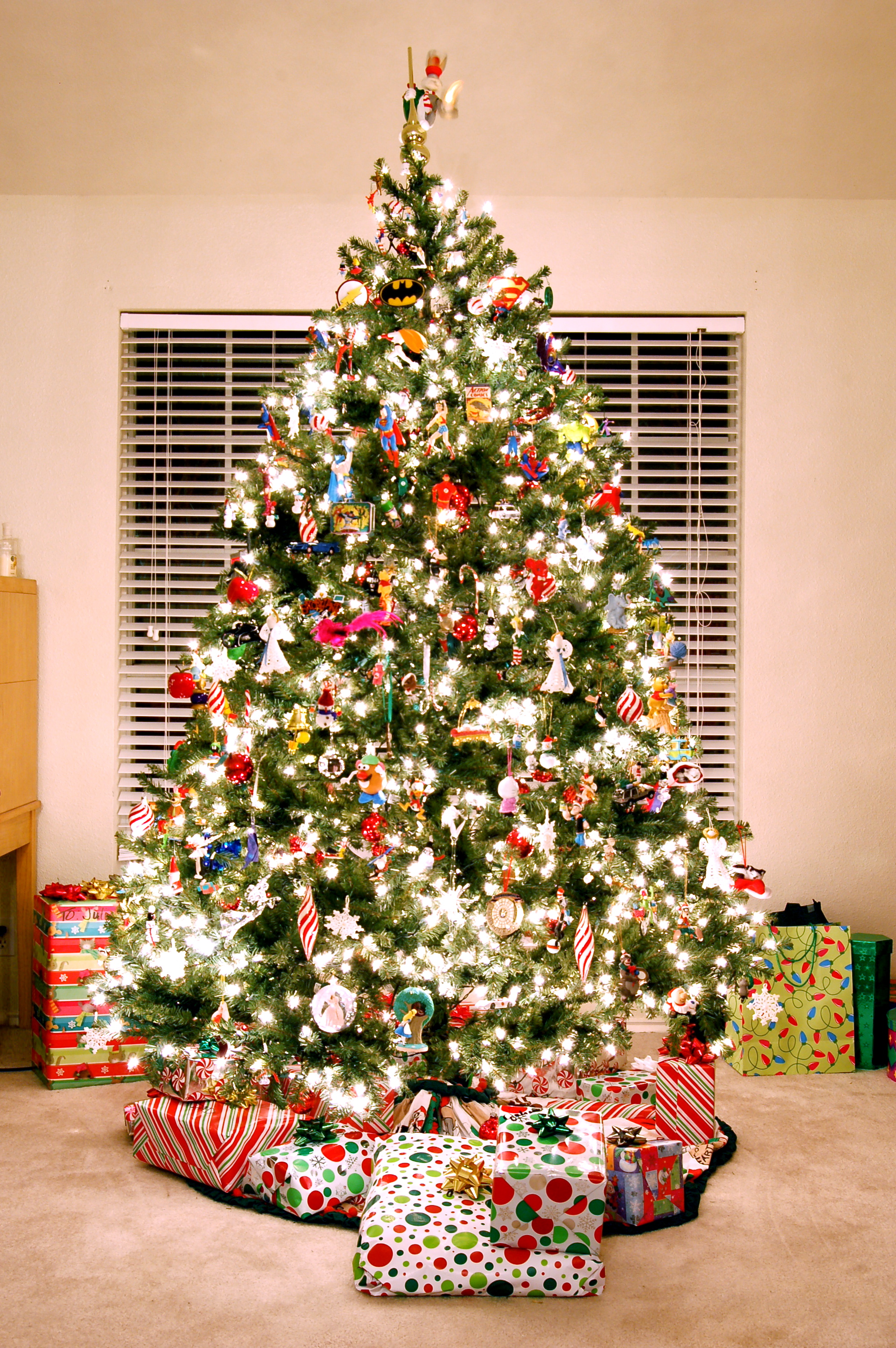 A Christmas tree with character ornaments.